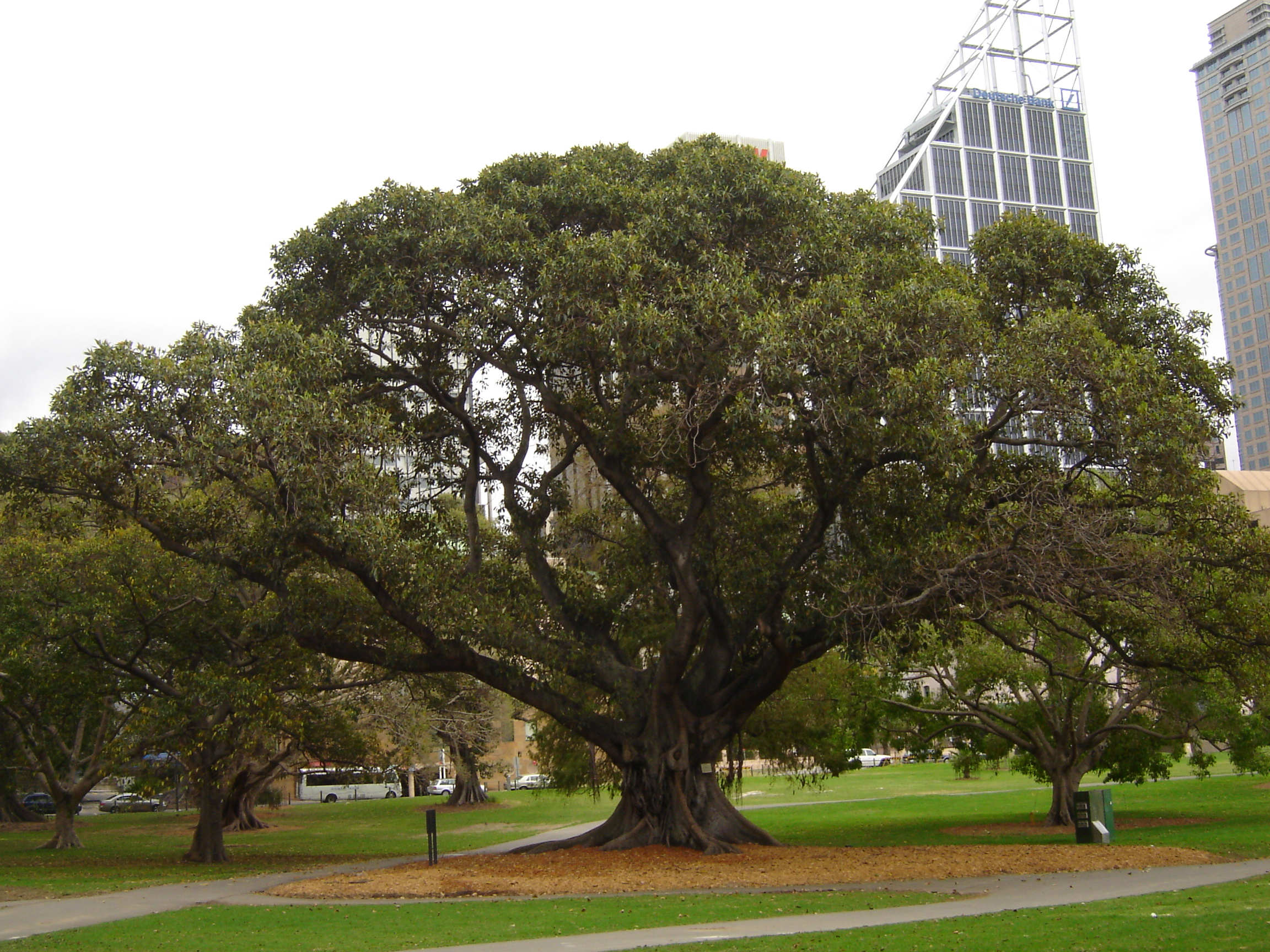 A Moreton Bay Fig, planted in 1850 (155 years old when photographed), near the Art Gallery of New South Wales, in The Domain, Sydney, photographed by DO'Neil.